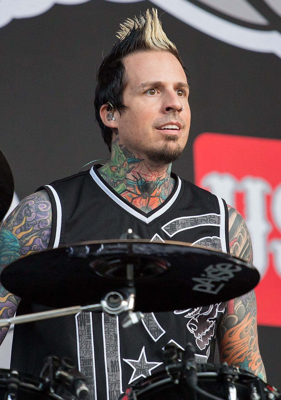 Jeremy Spencer performing with Five Finger Death Punch at the River City Rockfest at the AT&T Center in San Antonio, Texas in 2014